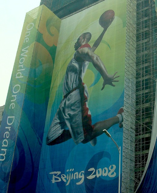 2008 Olympic Games in Beijing. Basket banner. Closer image